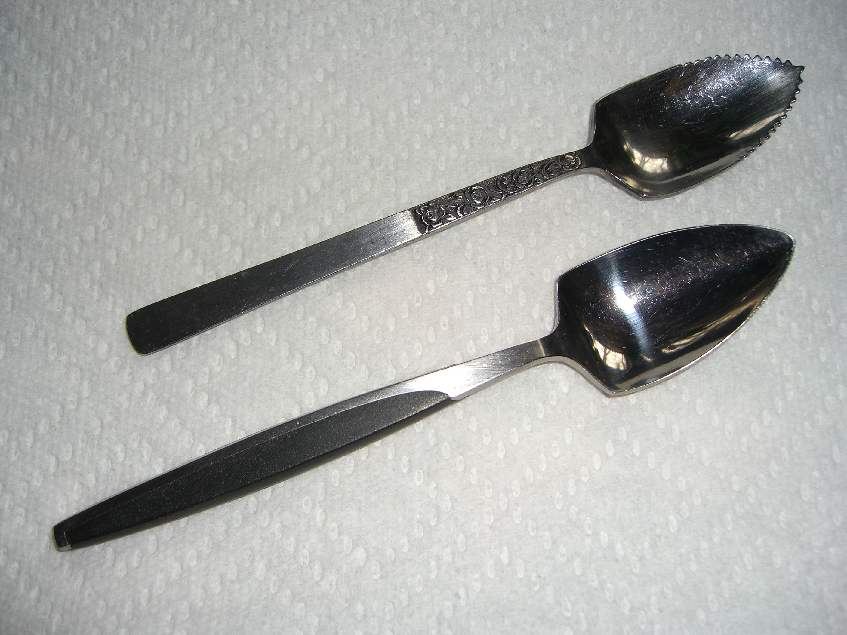 Grapefruit spoons